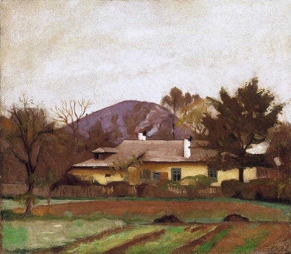 Baia Mare landscapes